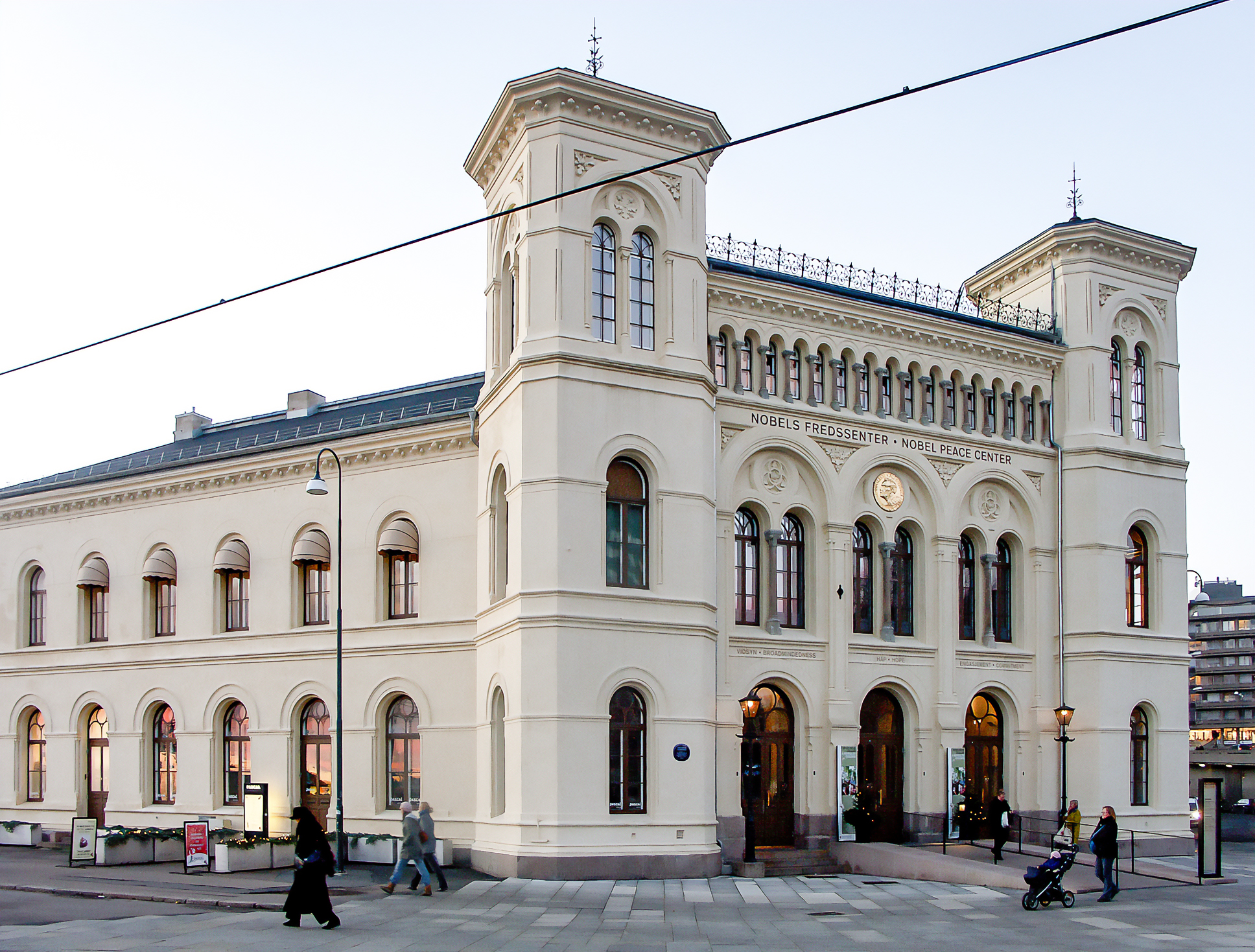 The Nobel Peace Center in Oslo, Norway